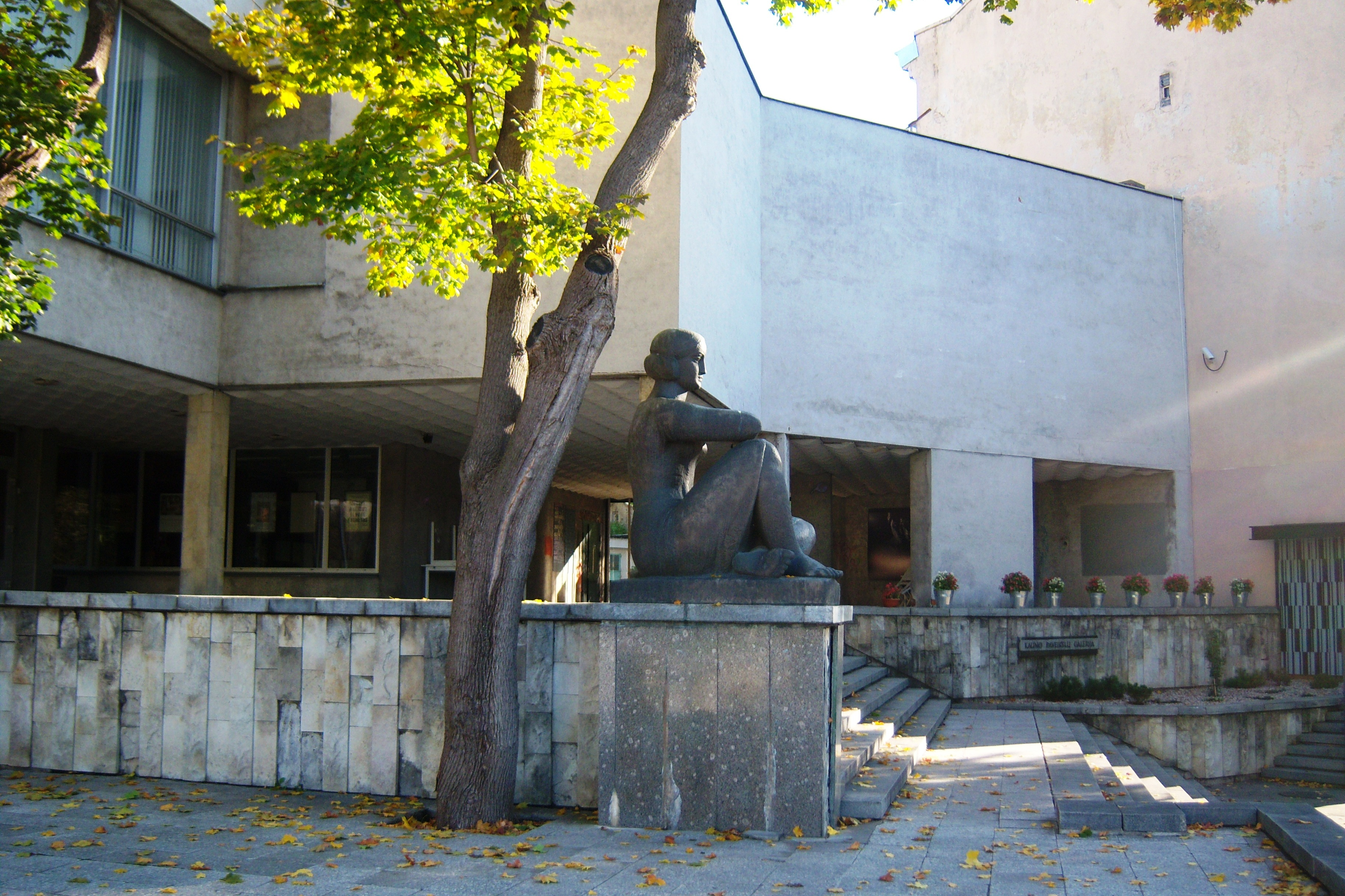 Kaunas Picture Gallery. Sculpture. Lithuania